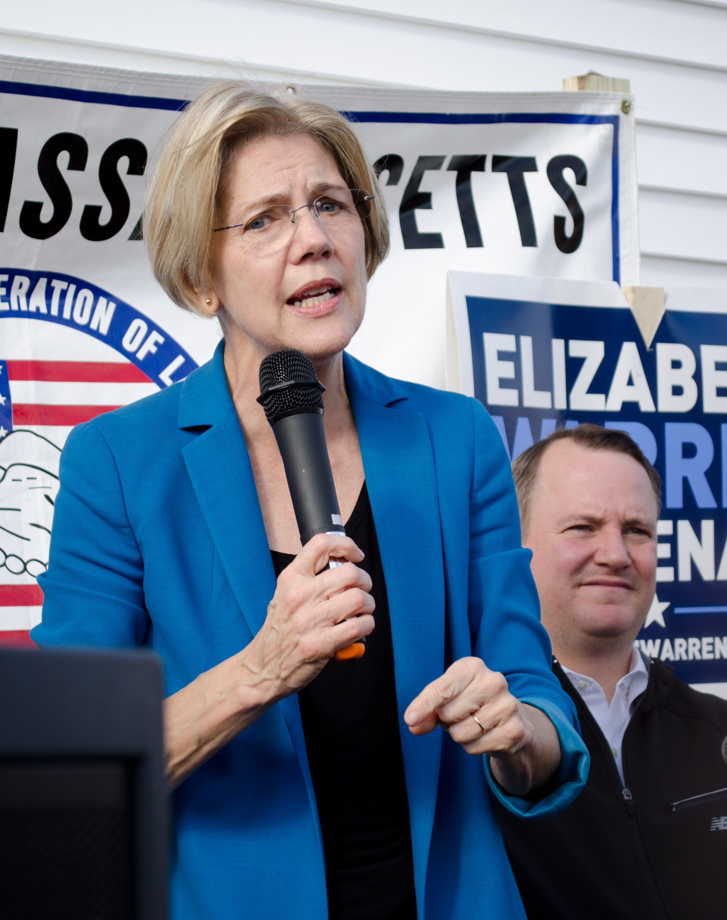 Elizabeth Warren (l.) and Massachusetts Lieutenant Governor Tim Murray at a Warren campaign rally in Auburn, Massachusetts, Nov 2, 2012.